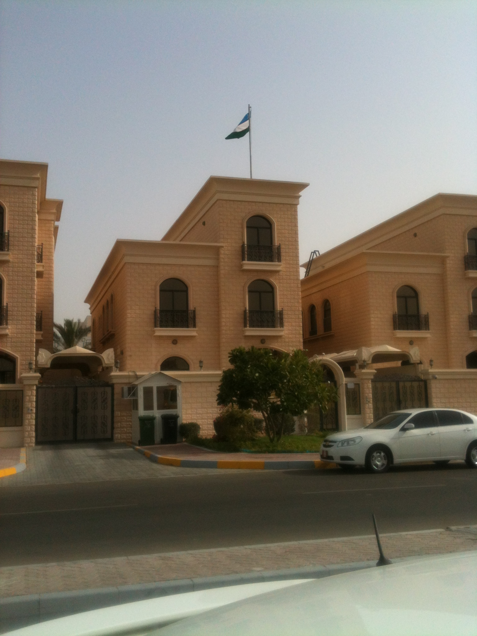 Embassy of Uzbek